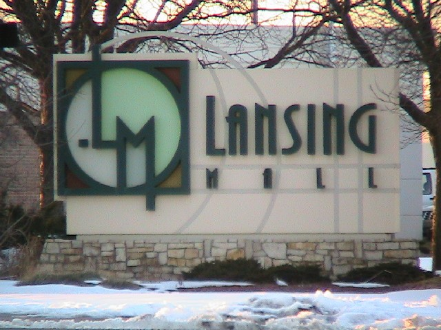 Lansing Mall entrance sign at corner of W Saginaw Highway and Elmwood Road west of Lansing in Delta Township, Michigan